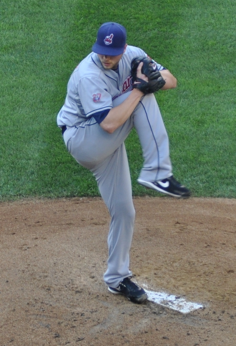 Cleveland Indians pitcher Aaron Laffey, pitching in a winning effort against the Seattle Mariners at Seattle's Safeco Field, 24 July 2009.